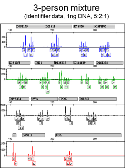 An electropherogram of a three person mixture in a 5:2:1 ratio using the Applied Biosystem's Identifiler STR kit